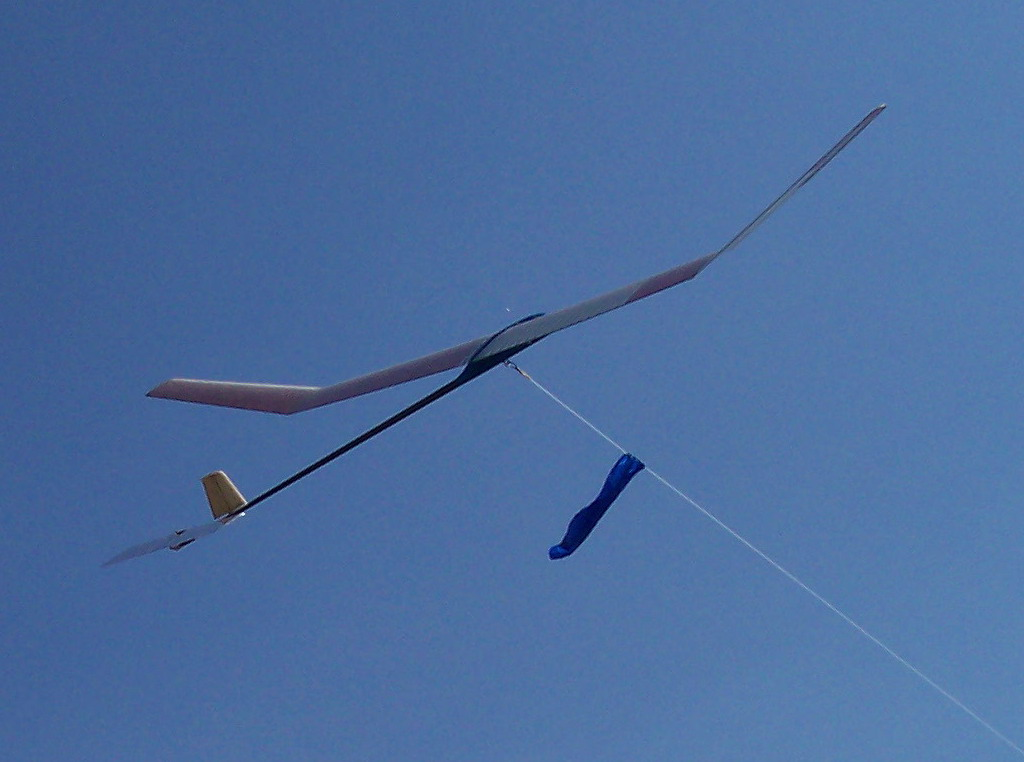 Euro Champ 2004 - Buzau Romenia Model by Elena Chernyk